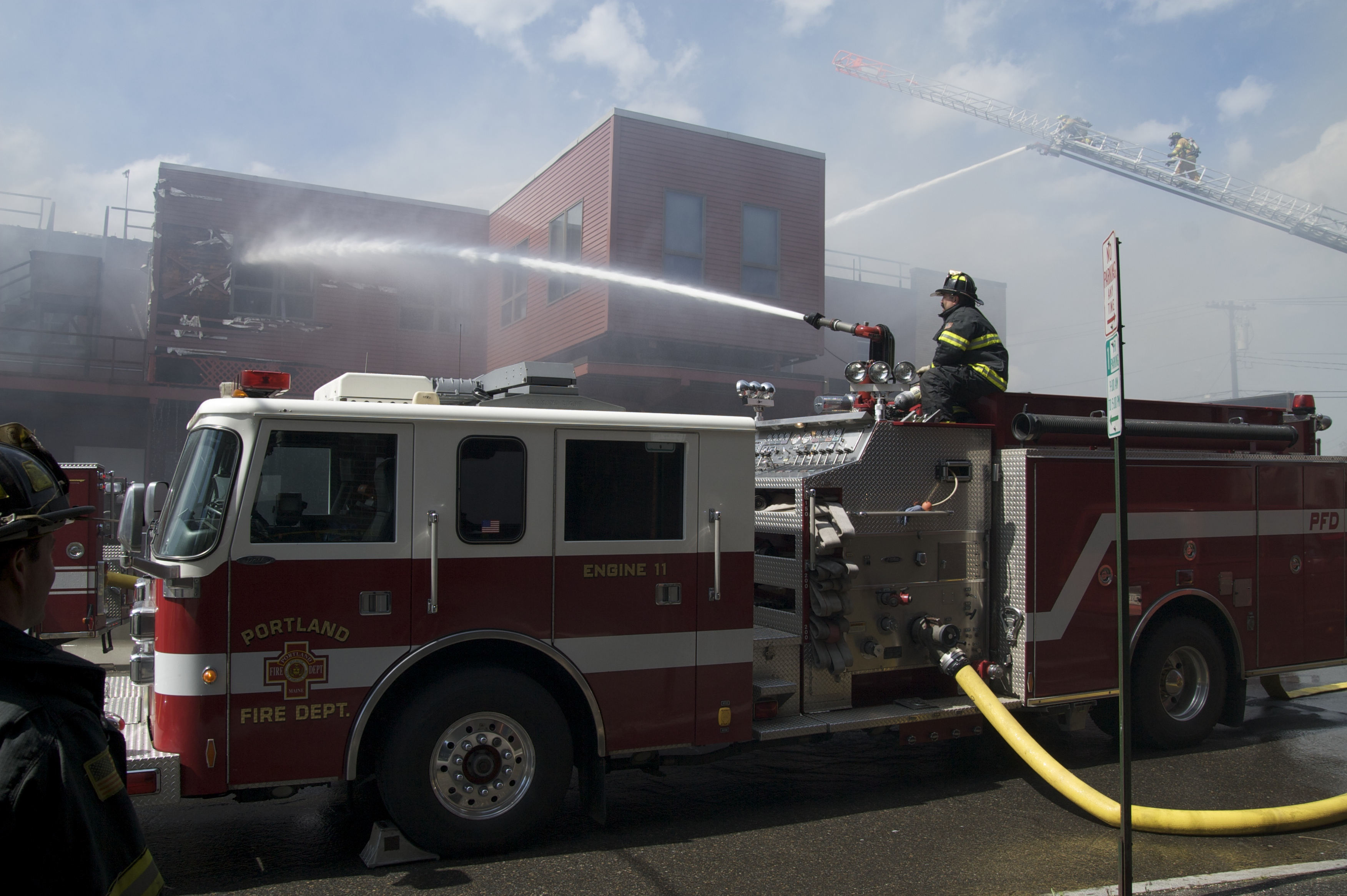 Portland Engine 11 directs water through a window opening while South Portland Truck 2's ladder is visible in the background operating its master stream.